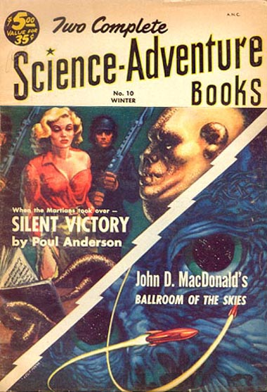 Cover, Two Complete Science Adventure Books, Winter 1953